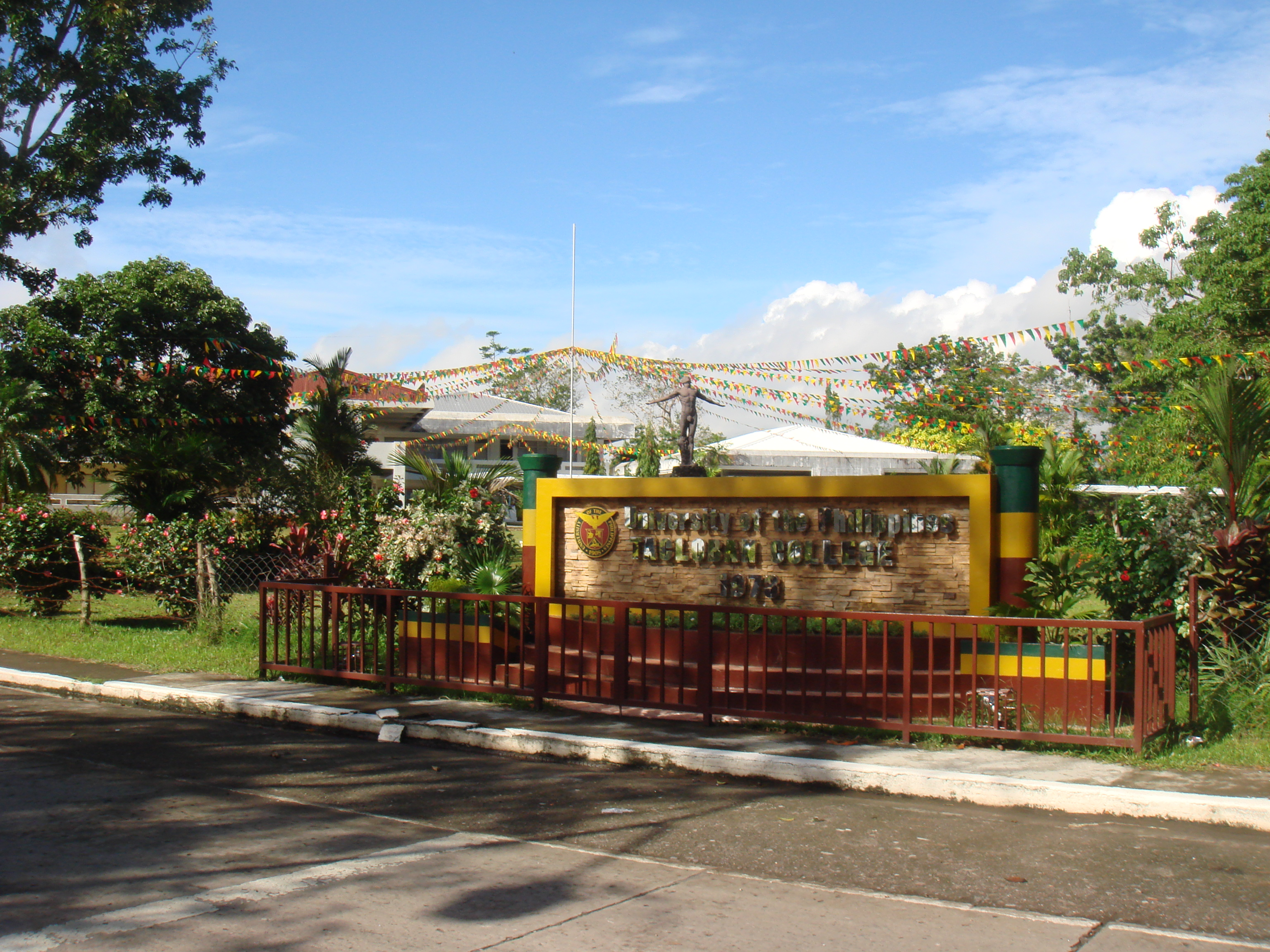 UP Tacloban College